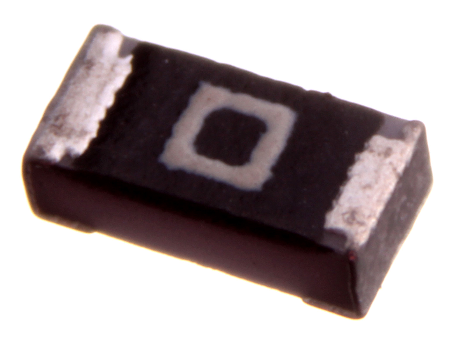 0 ohm SMD 0603 resistor.